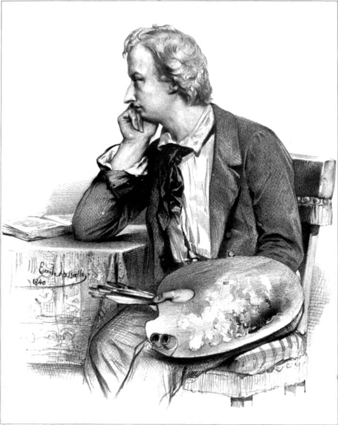 Drawing of Ary Scheffer (Ary Scheffer (1795-1858), Dutch-born French painter